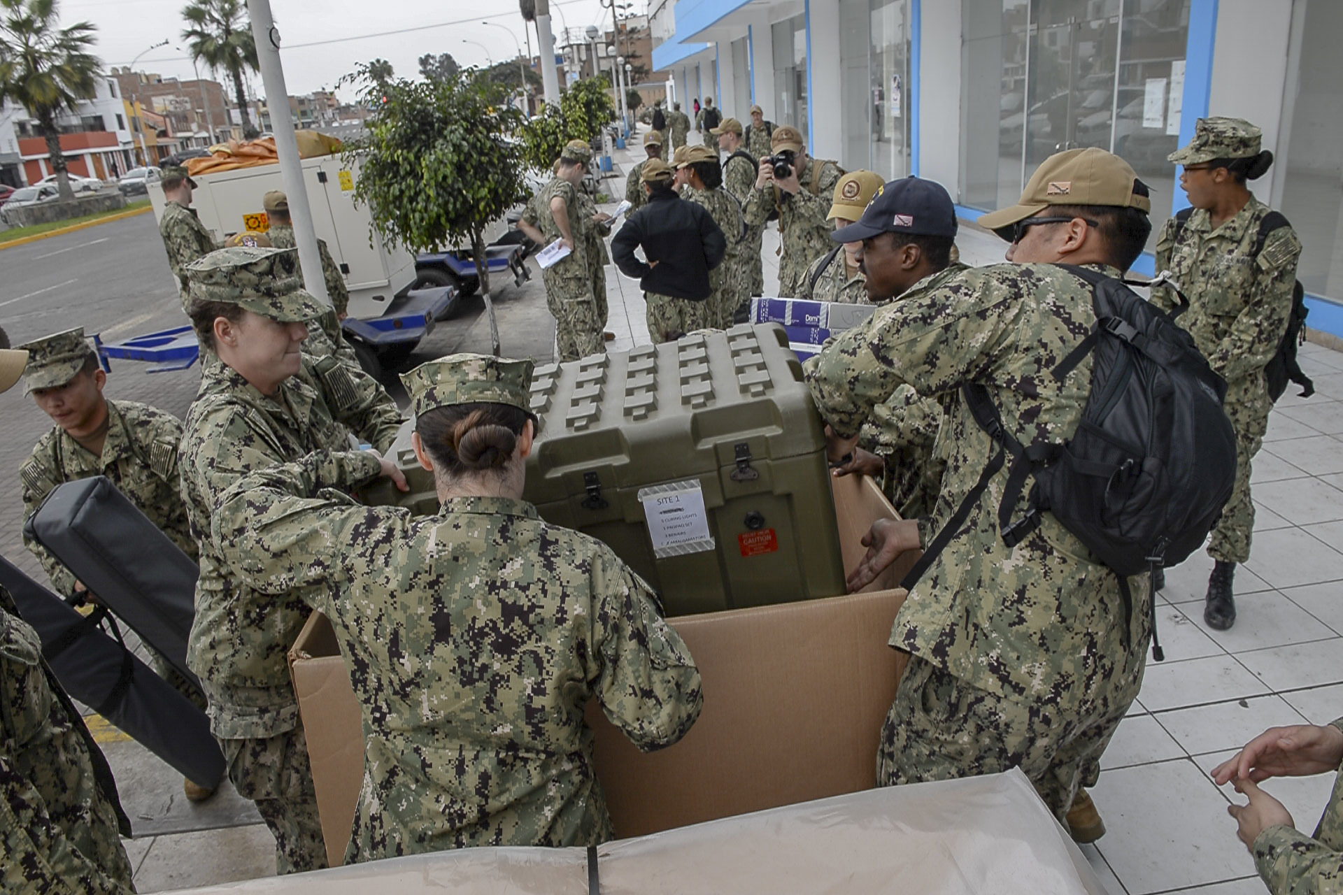 CALLAO, Peru (July 8, 2019) Sailors assigned to USNS Comfort (T-AH 20) set up a U.S. Navy medical site. Comfort is working with health and government partners in Central America, South America, and the Caribbean to provide care on the ship and at land-based medical sites, helping to relieve pressure on national medical systems strained by an increase in Venezuelan migrants. (U.S. Navy photo by Mass Communication Specialist 2nd Class Julio Martinez Martinez/Released)190708-N-AM903-1013